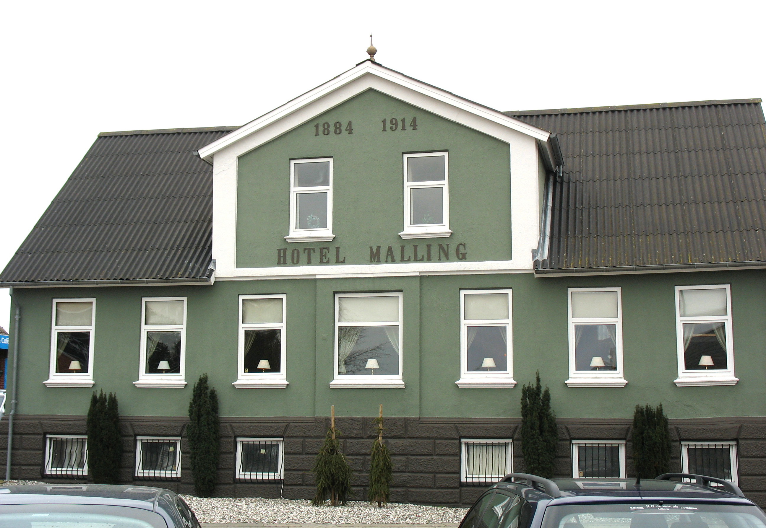 the old tavern and hotel of Malling Kro.